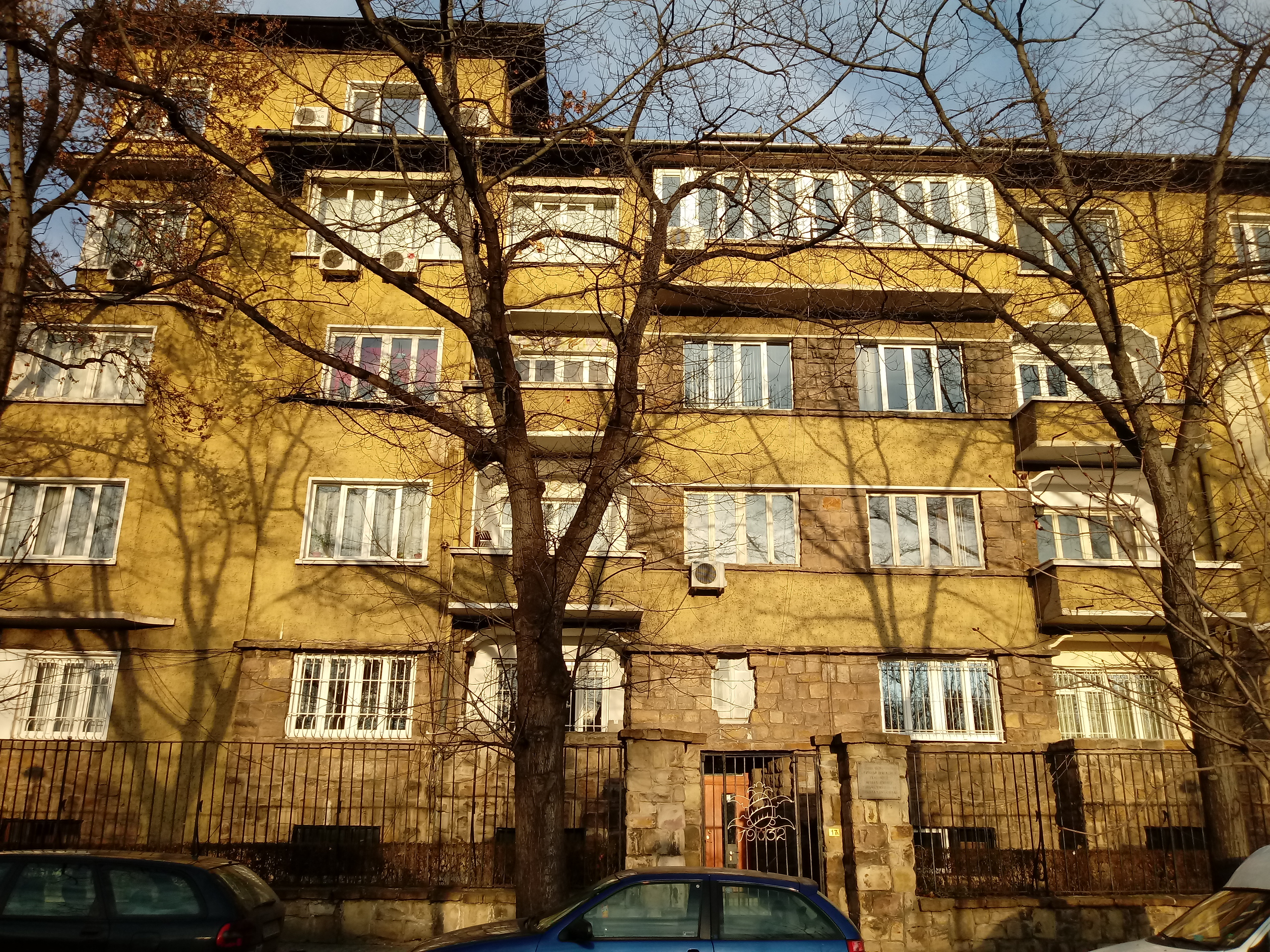 Stoyan Brashovanov and Petar Djidrov home with memorial plaques, 17A Tsar Osvoboditel Blvd., Sofia